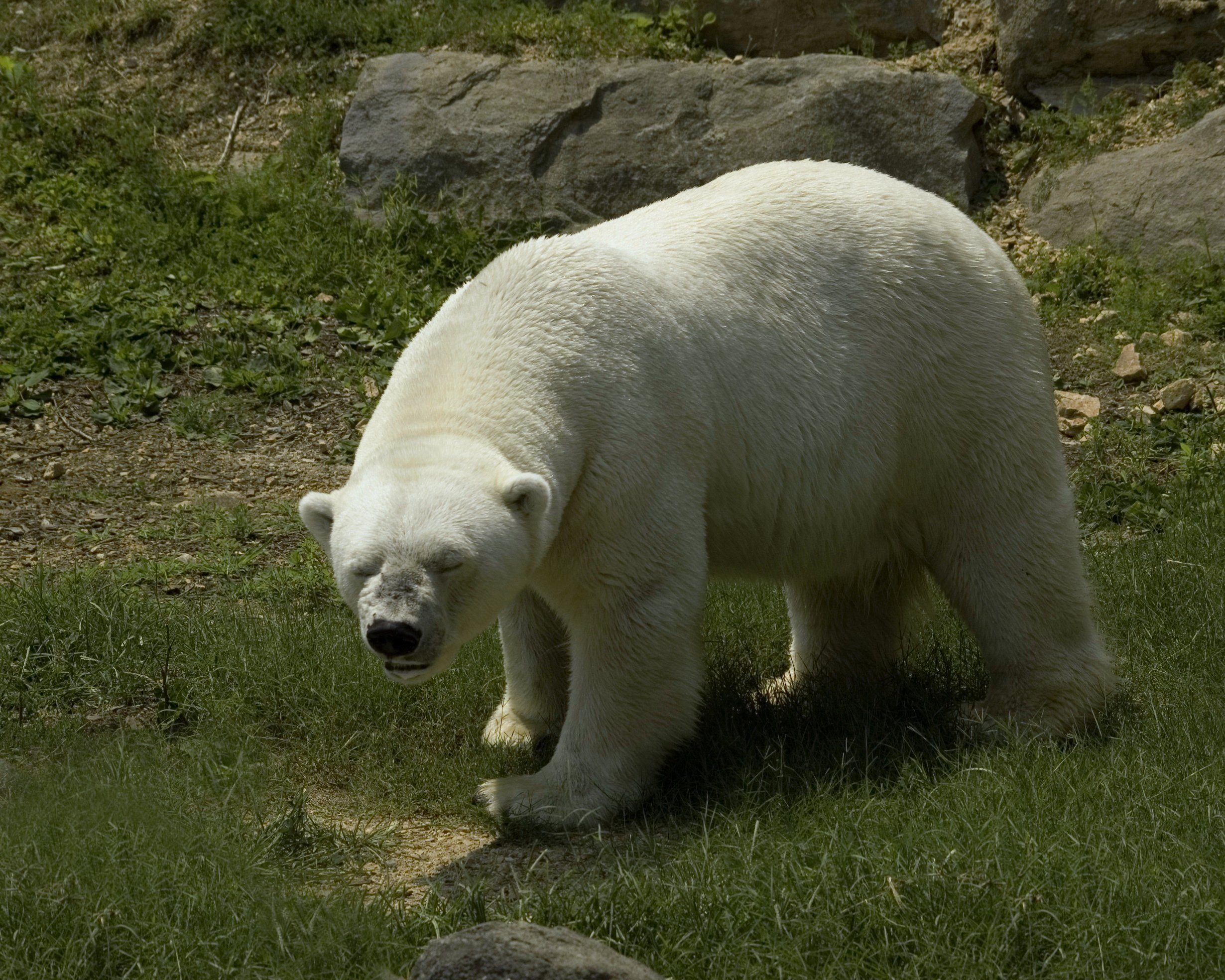 Polar bear, in the Maryland Zoo Location: Baltimore.